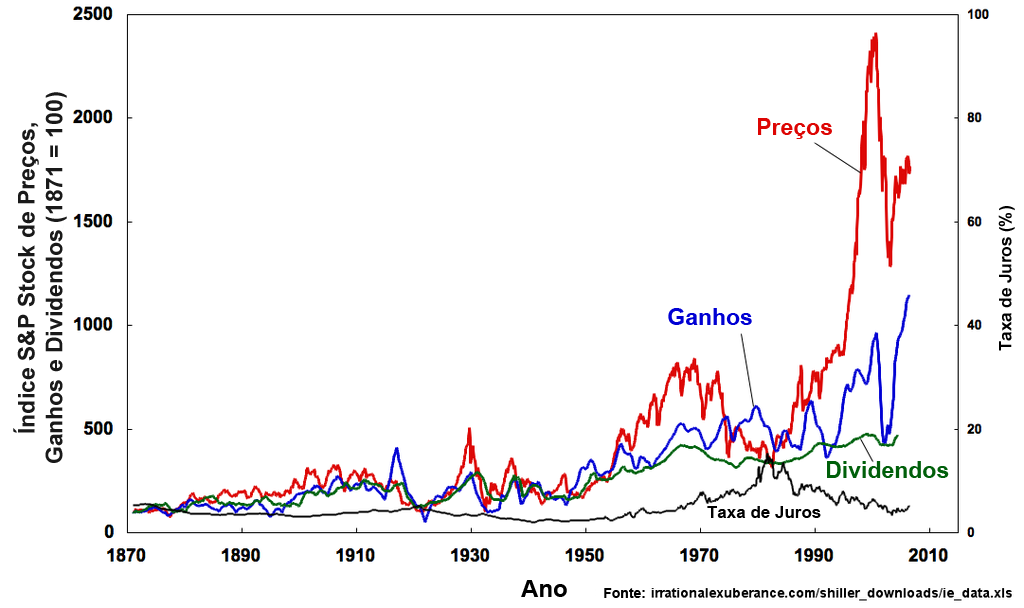 Plot of S&P Composite Real Price Index, Earnings, Dividends, and Interest Rates using data from